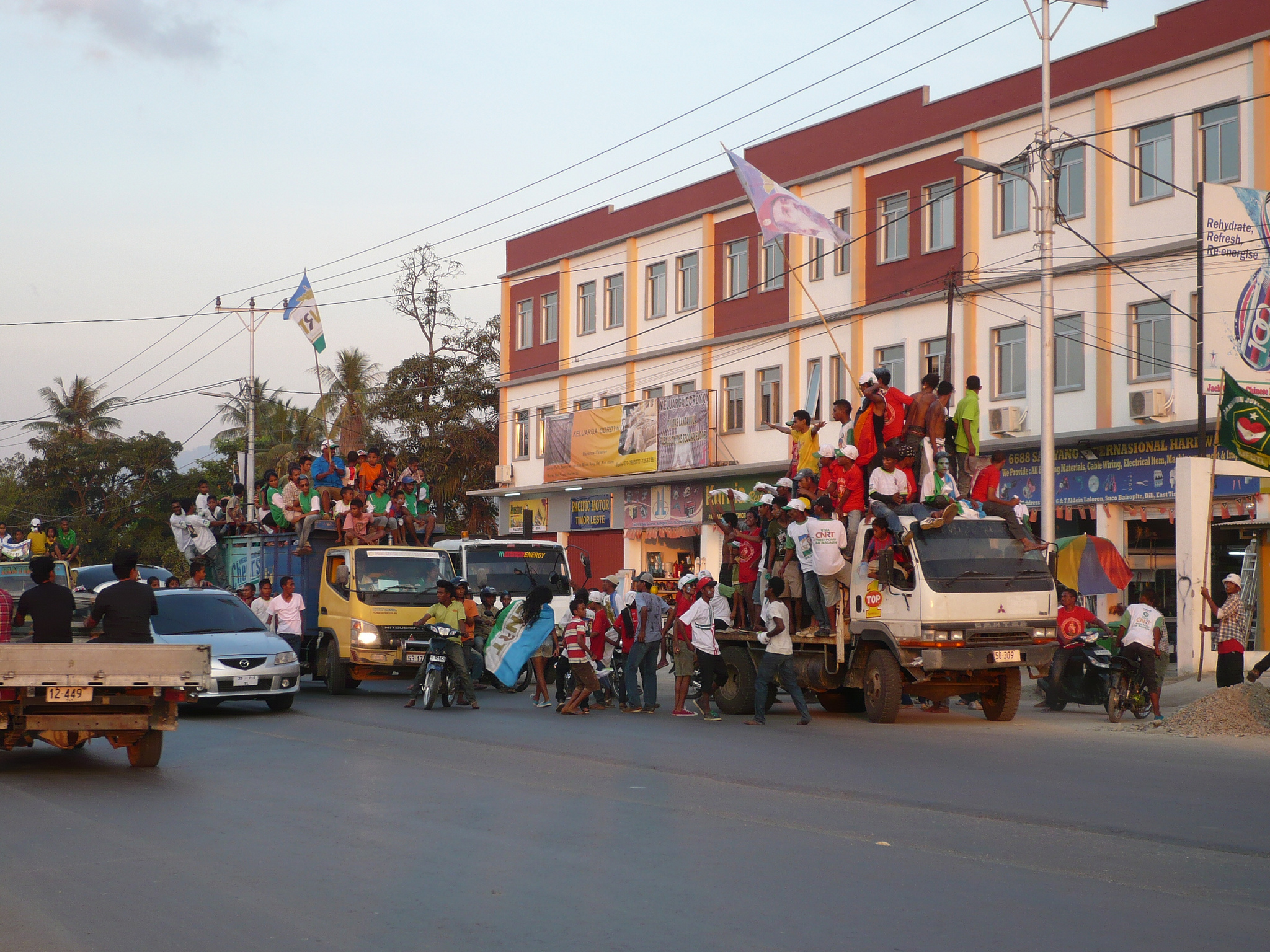 CNRT campaign